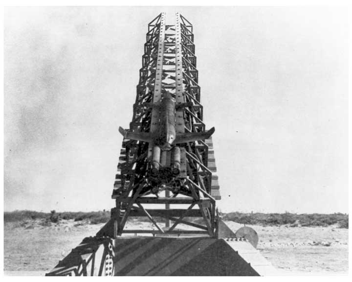 Private F before launch.